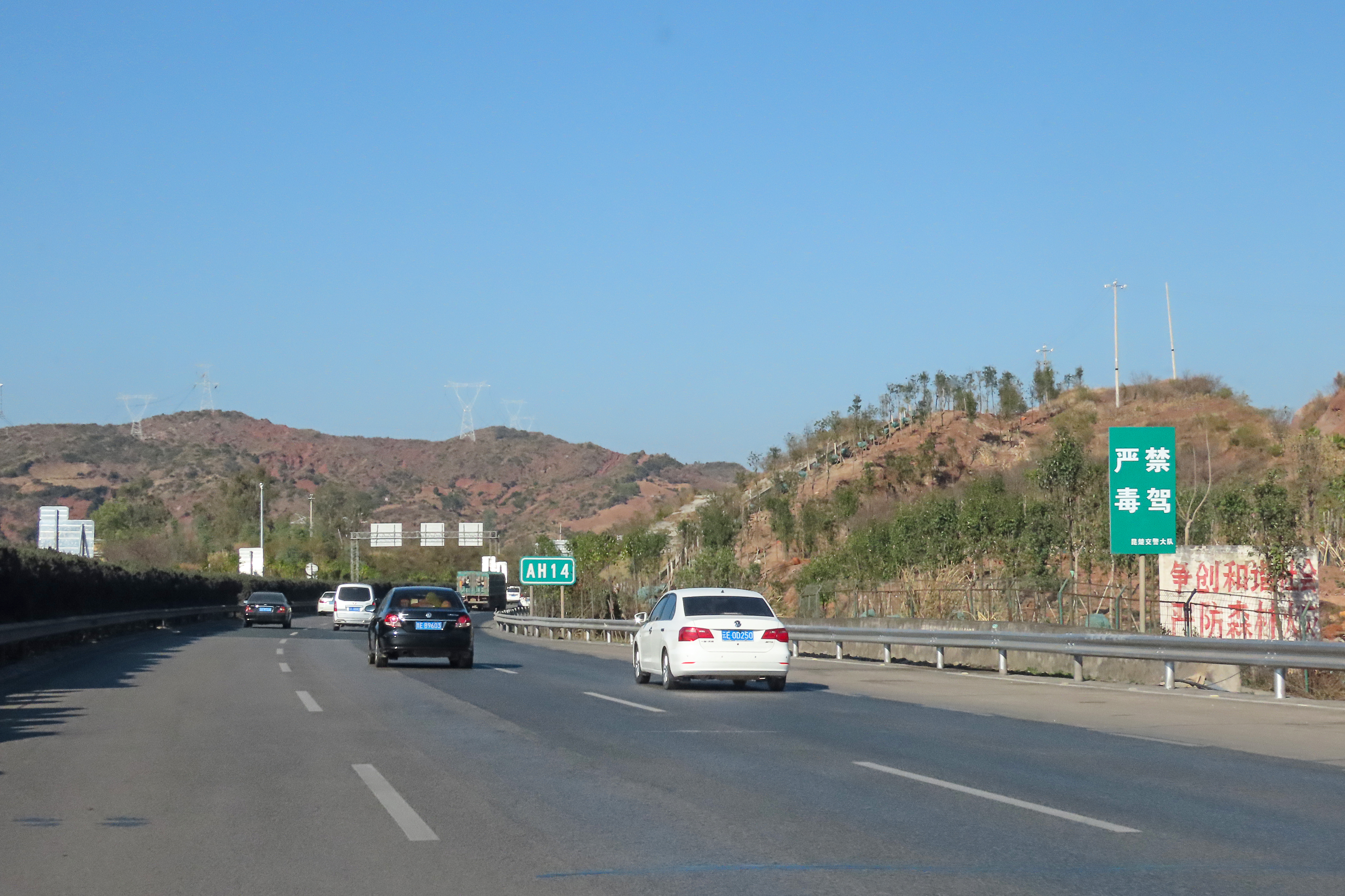 "No drug–impaired driving!"